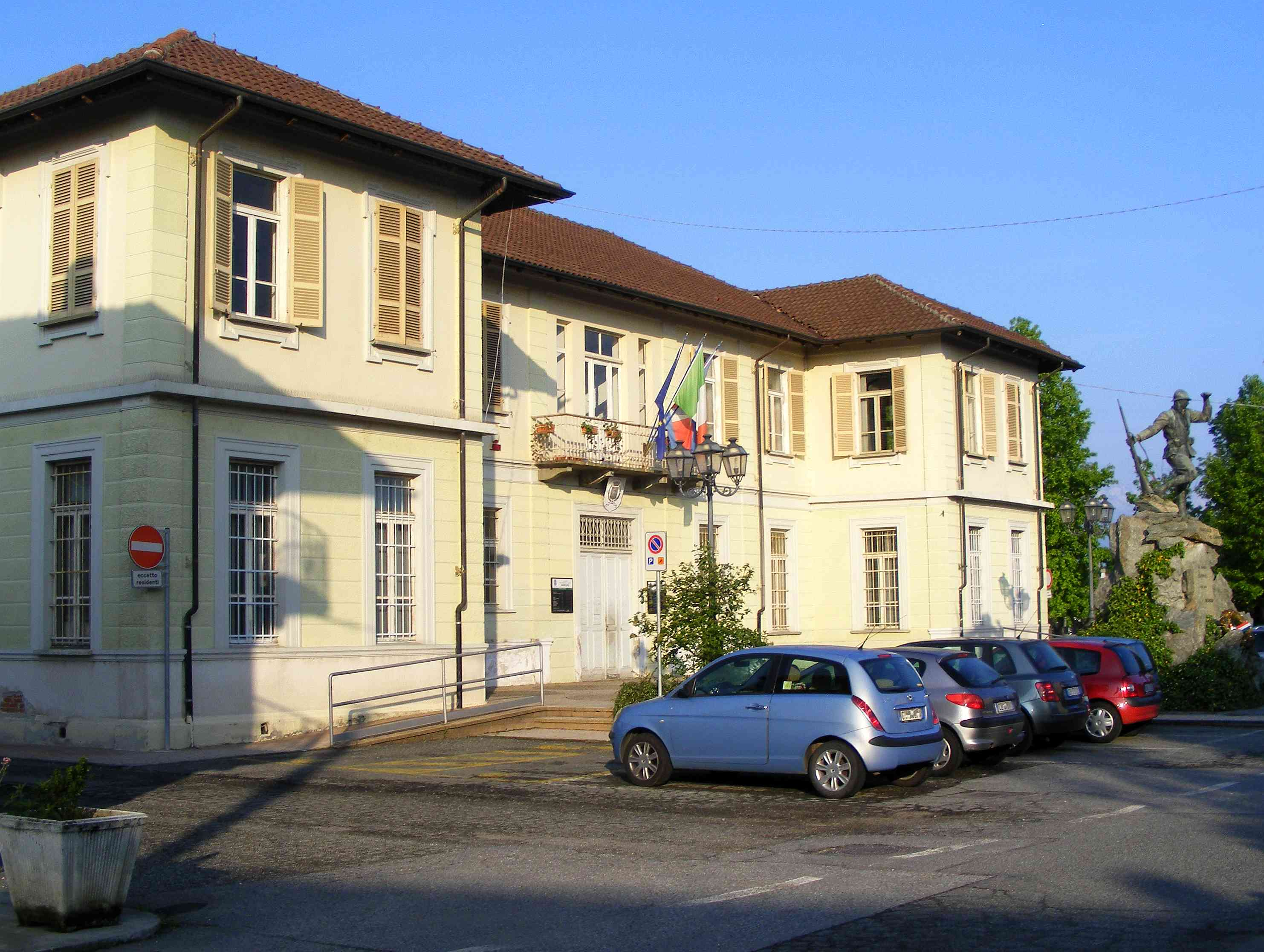 San Francesco al Campo (TO, Italy): town hall